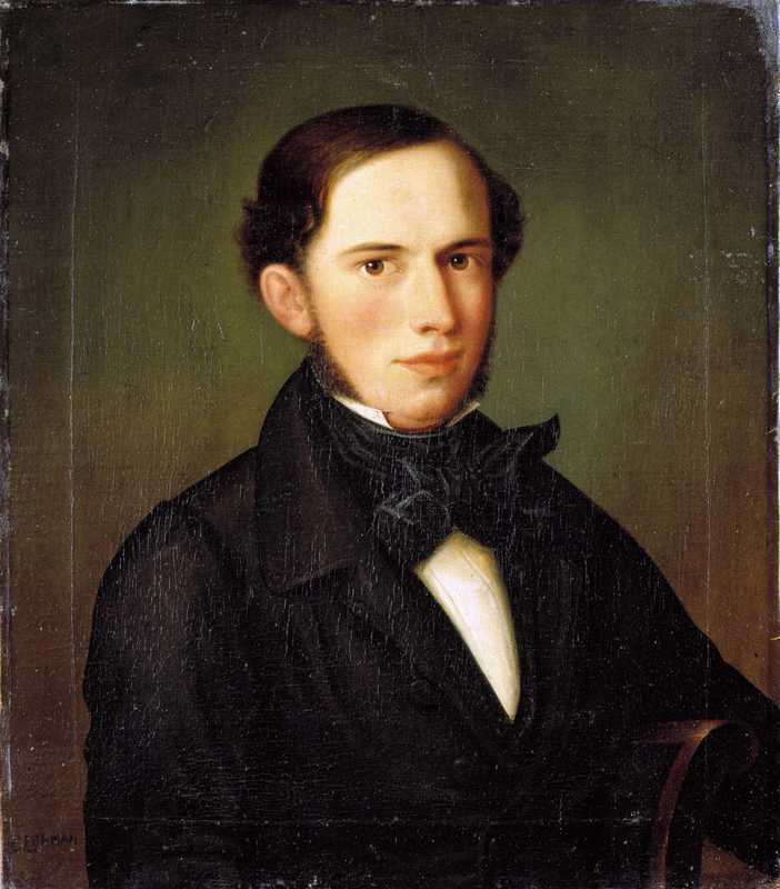 Portrait of norwegian author Johan Welhaven (1807-1873)